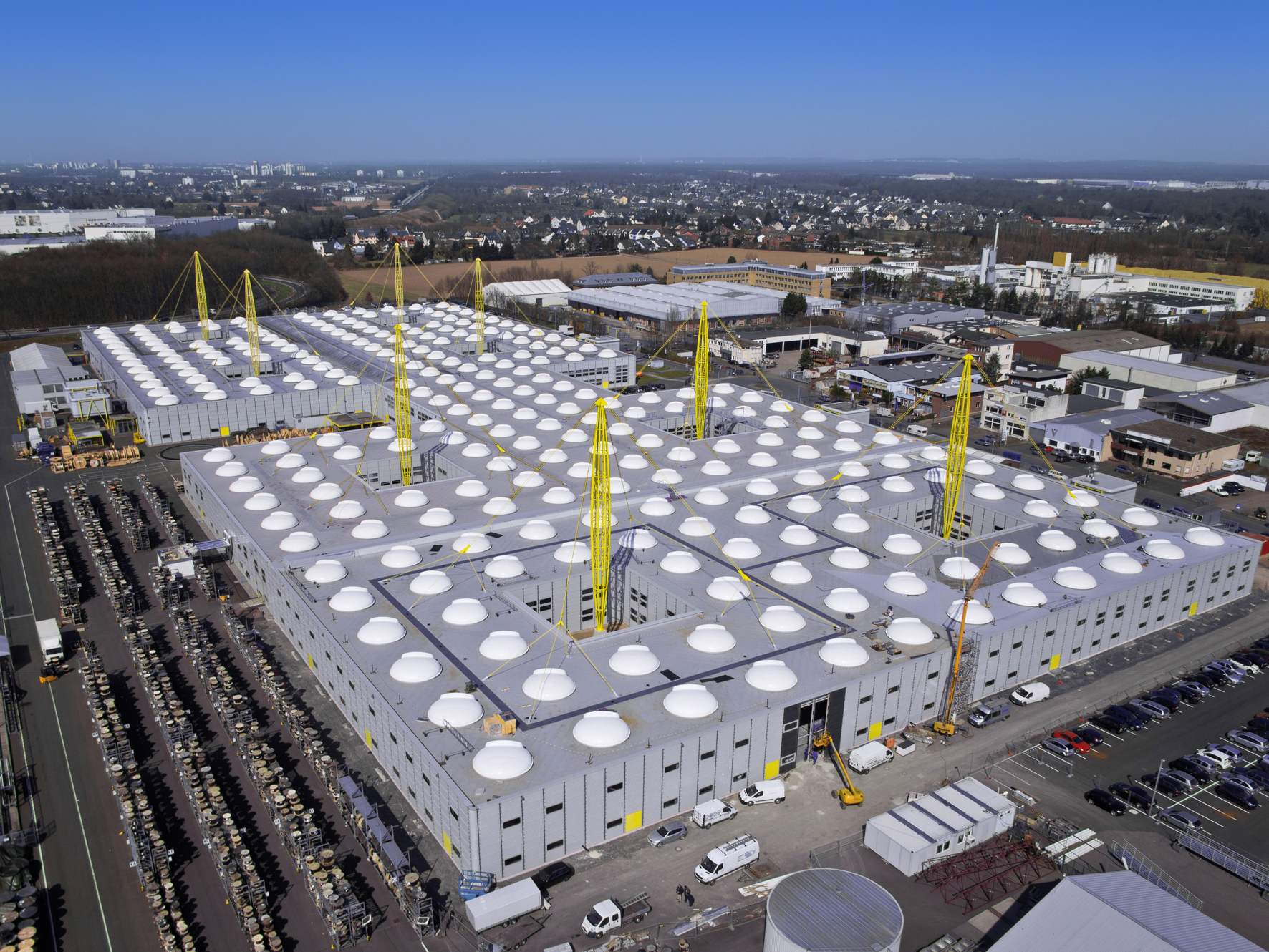 igus headquarters in Cologne